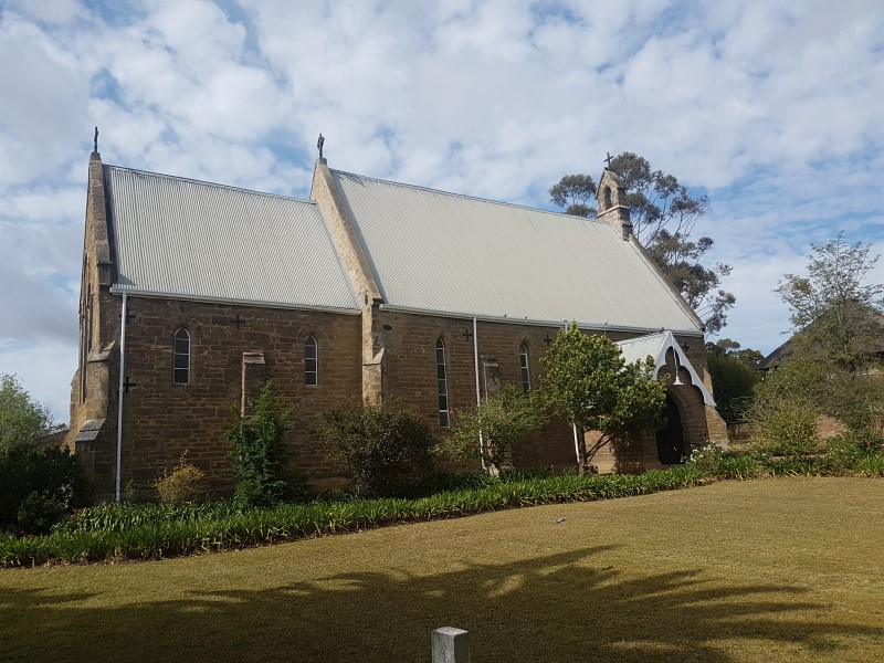 Nederduitse Gereformeerde Kerk Riversdale Dutch Reformed Church Riversdale